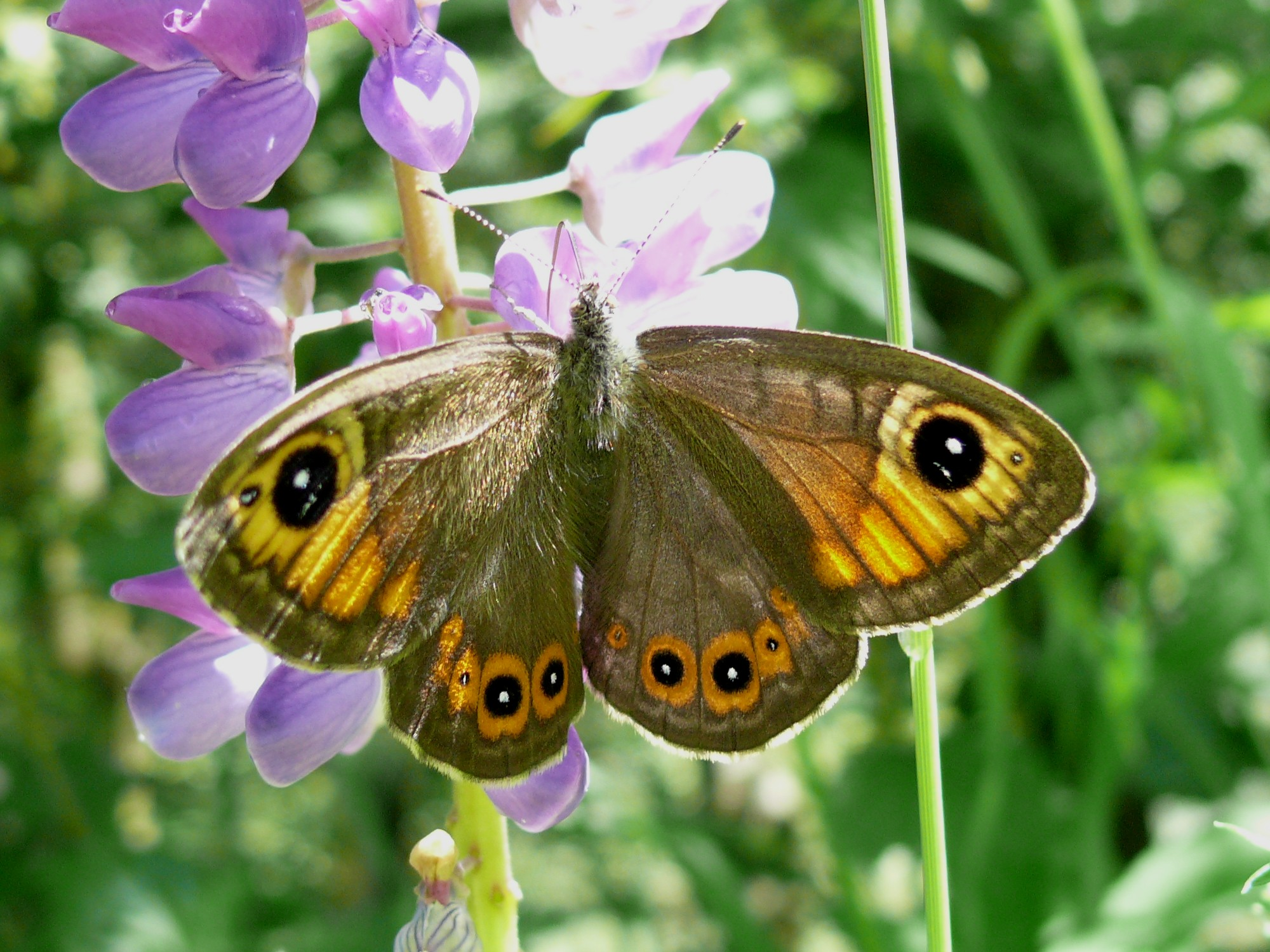 female Large Wall Brown, South Tyrol